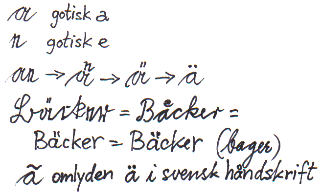 The two dots of the modern German umlaut is a reminiscence from two vertical parallel lines which are again a reminiscence of a Gothic hand-written e above the letter. Samples in Danish.